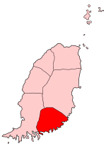 Map of Grenada showing Saint David parish.